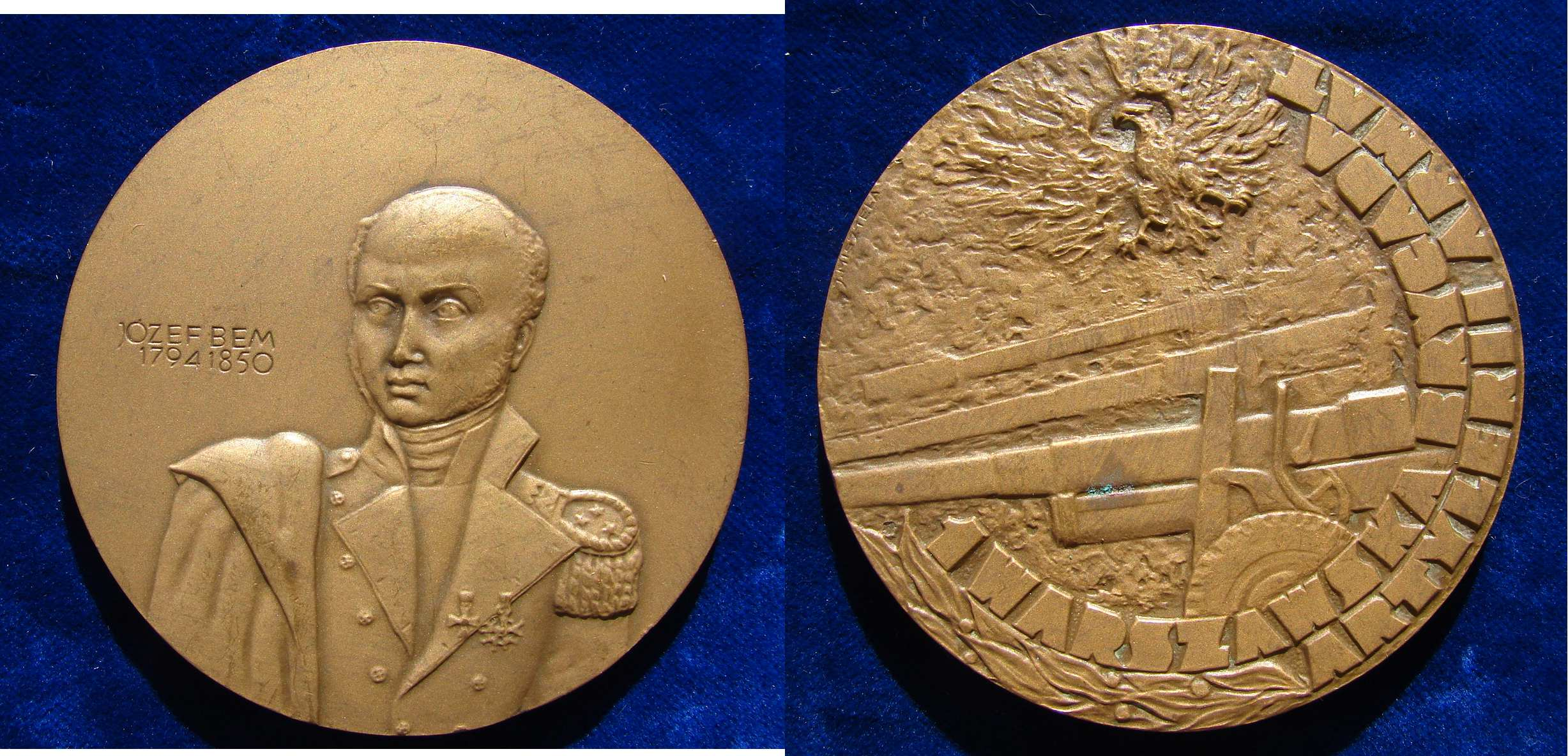 Large bronze medallion ND (about 1970). D = 70 mm. Bem, Józef Zachariasz, General, 1794 Tarnów, Poland - 1850 Aleppo, Ottoman Empire (now Syria) 2 lines left of portrait: "JÓZEF BEM 1794 1850"/ Cannon facing l. below Polish Eagle, 2 lines curved below r.: "1 WARSZAWSKA BRYGADA ARTYLERII ARMAT". This brigade was formed 1943 in WW2 with Bem as patron. Medallist: J. (Jósef) Misztela, Sculptor Condition: Uncirculated MS 65, little tarnish on the reverse.